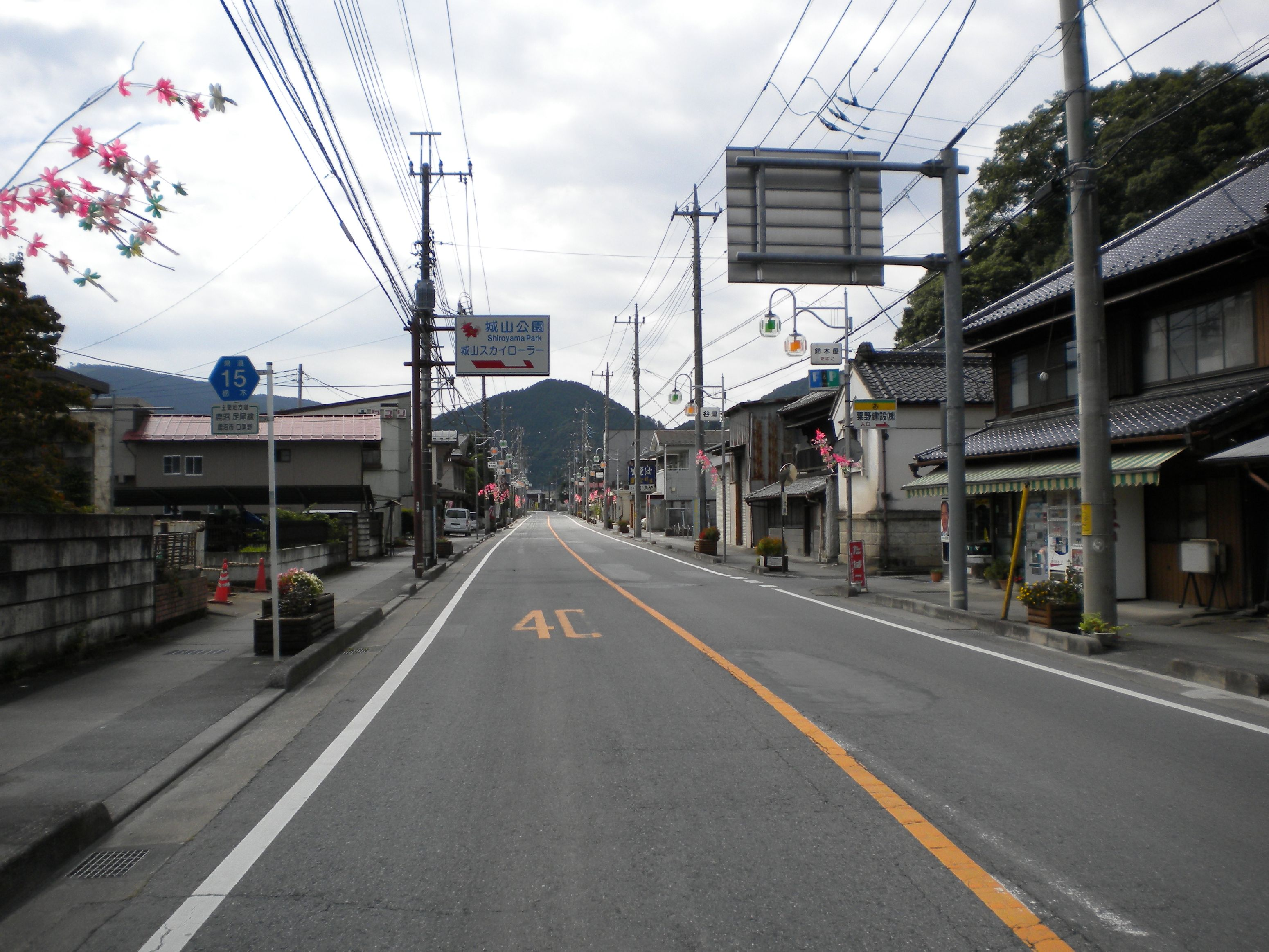 The Tochigi Prefectural Road Route 15 in Kuchiawano, Kanuma City